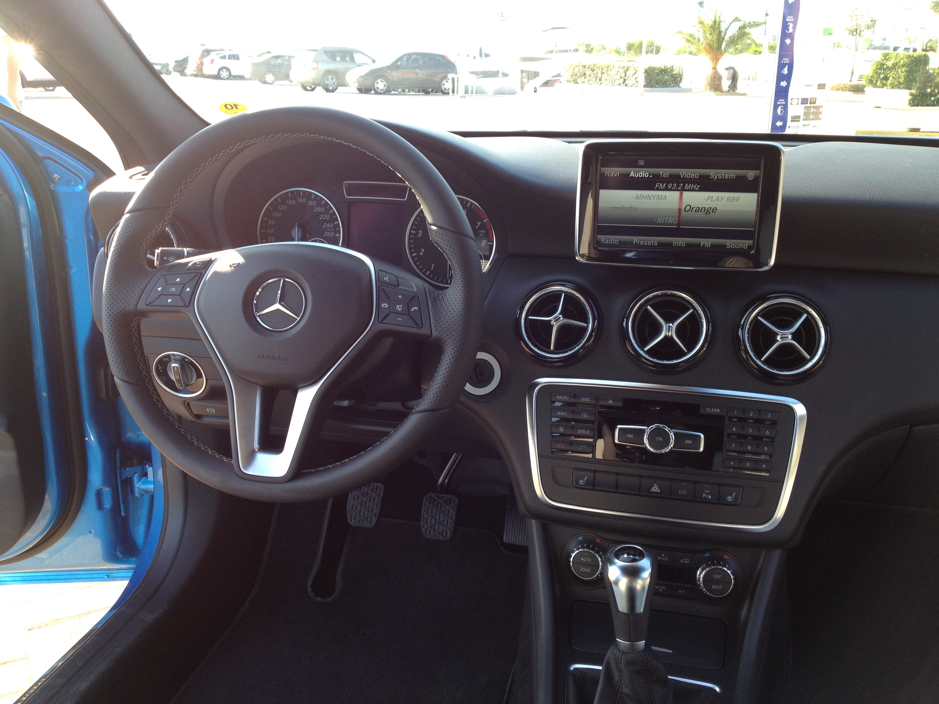 Mercedes A-Class 2012.